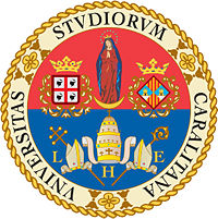 Logo University of Cagliari